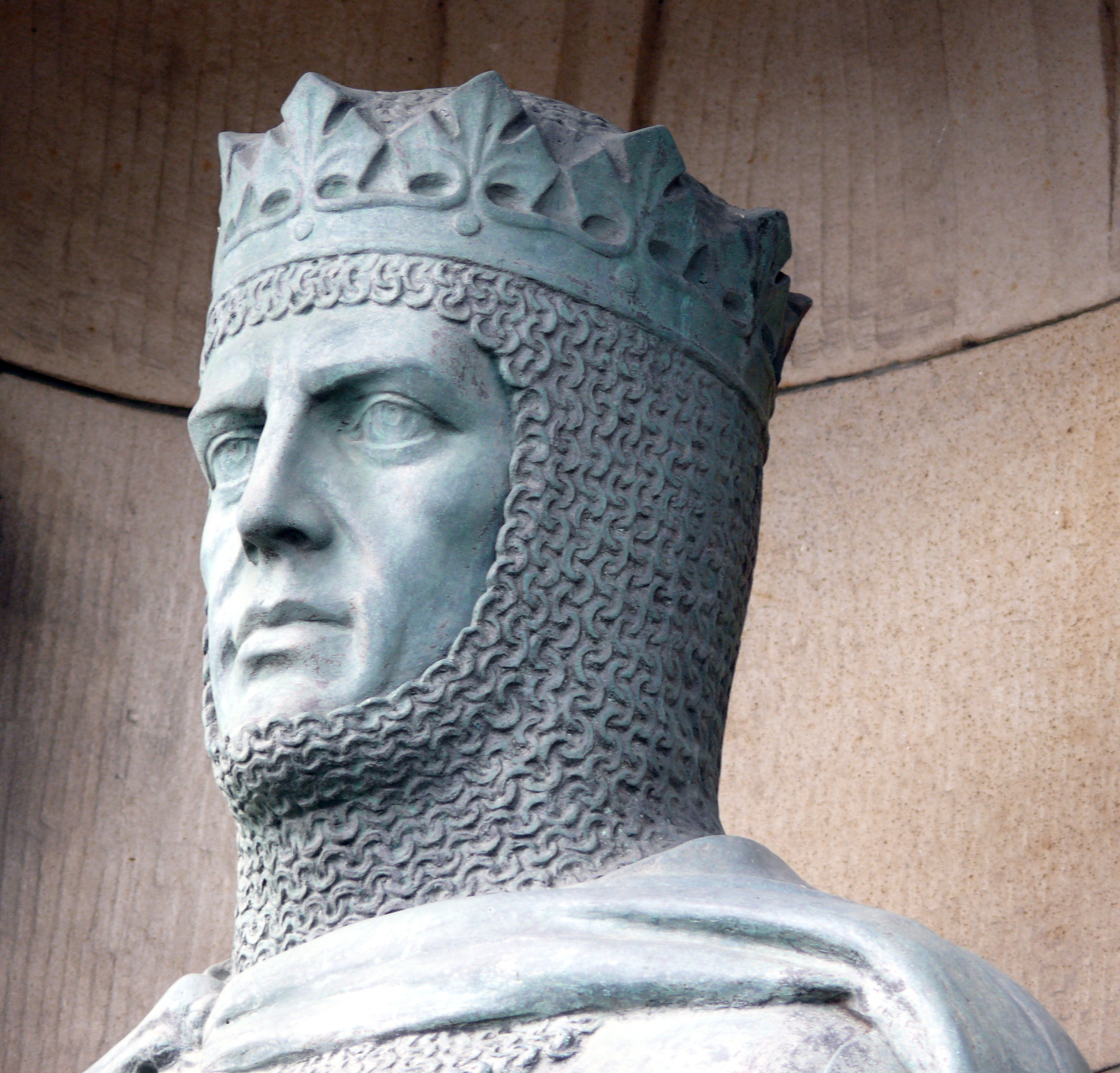 Statue of Robert the Bruce (1929) in front of the gates at Edinburgh Castle.